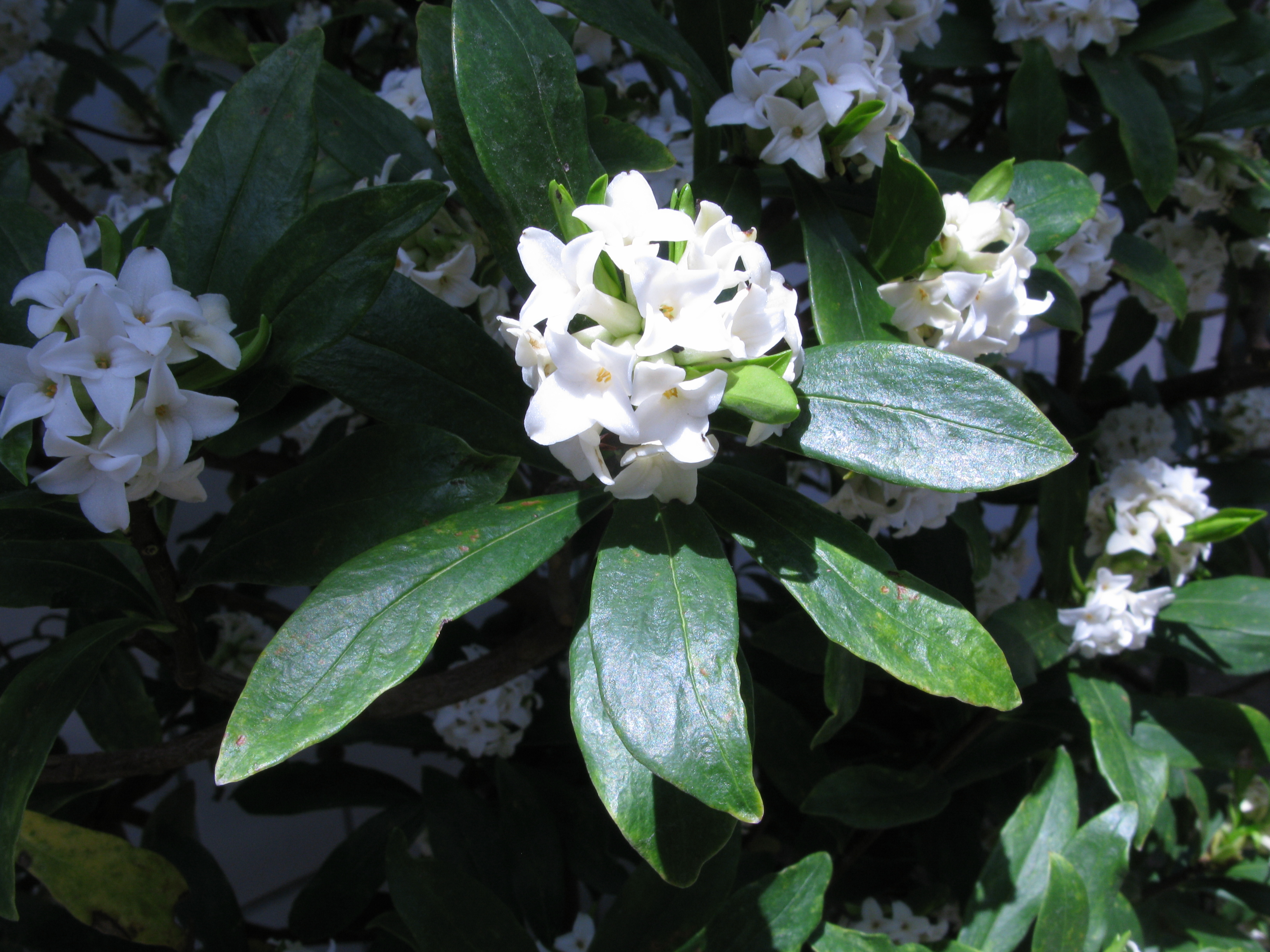 Daphne odora f. alba, Fukushima pref., Japan